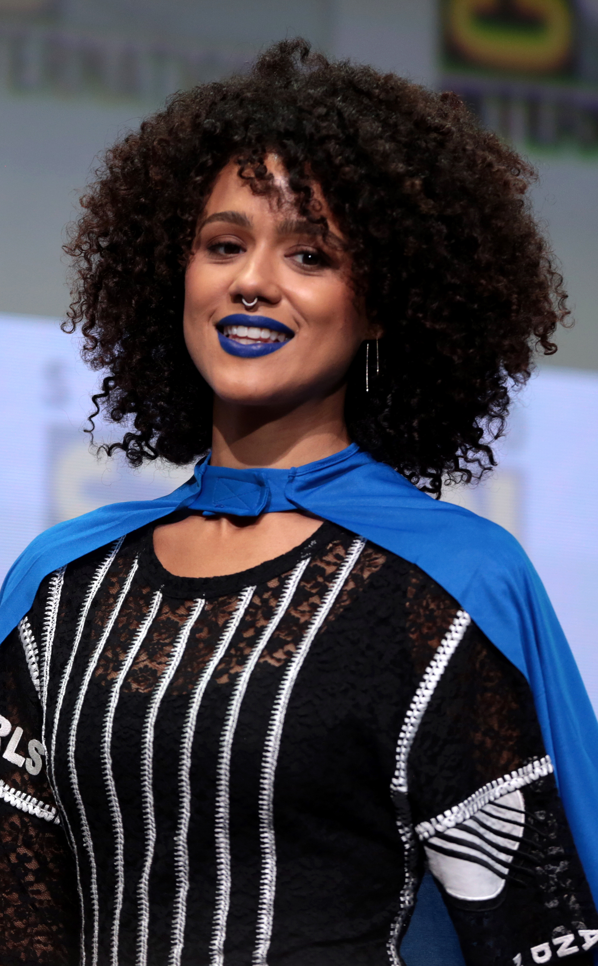 Nathalie Emmanuel speaking at the 2017 San Diego Comic-Con International in San Diego, California.